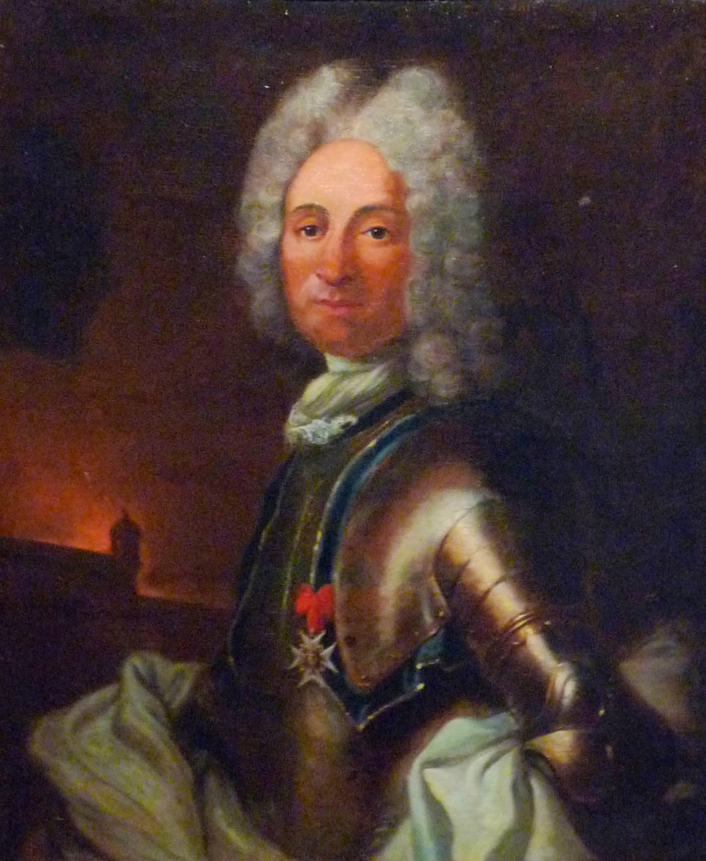 Portrait of Jacques Tarade (1649-1722)